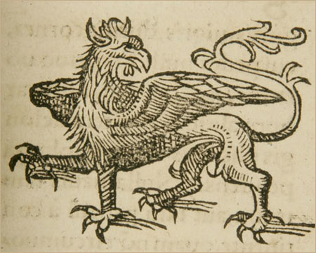 Griffin illustration from Lykosthenes' book